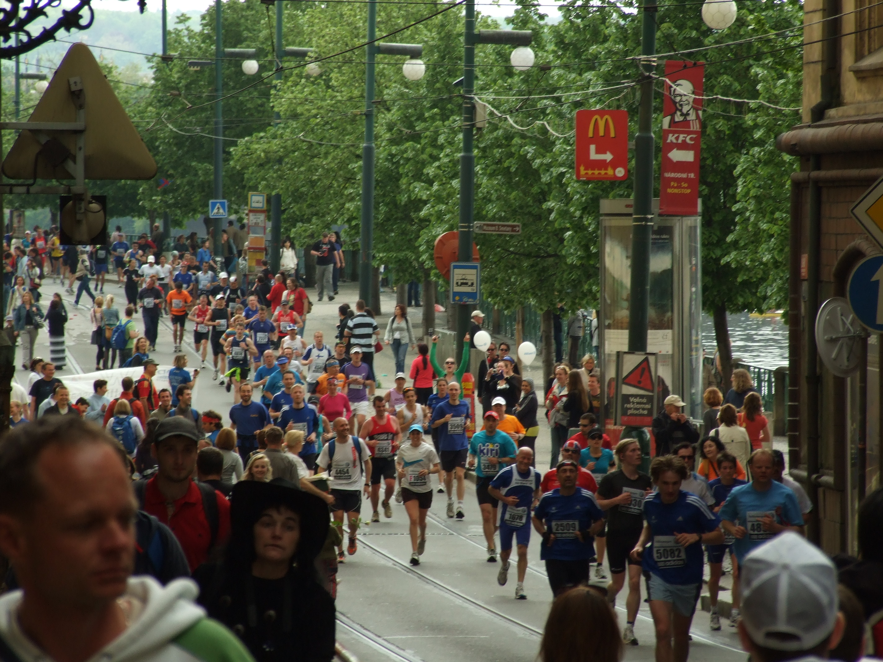 Prague International Marathon 2010 - Křižovnická street, Prague, CZ